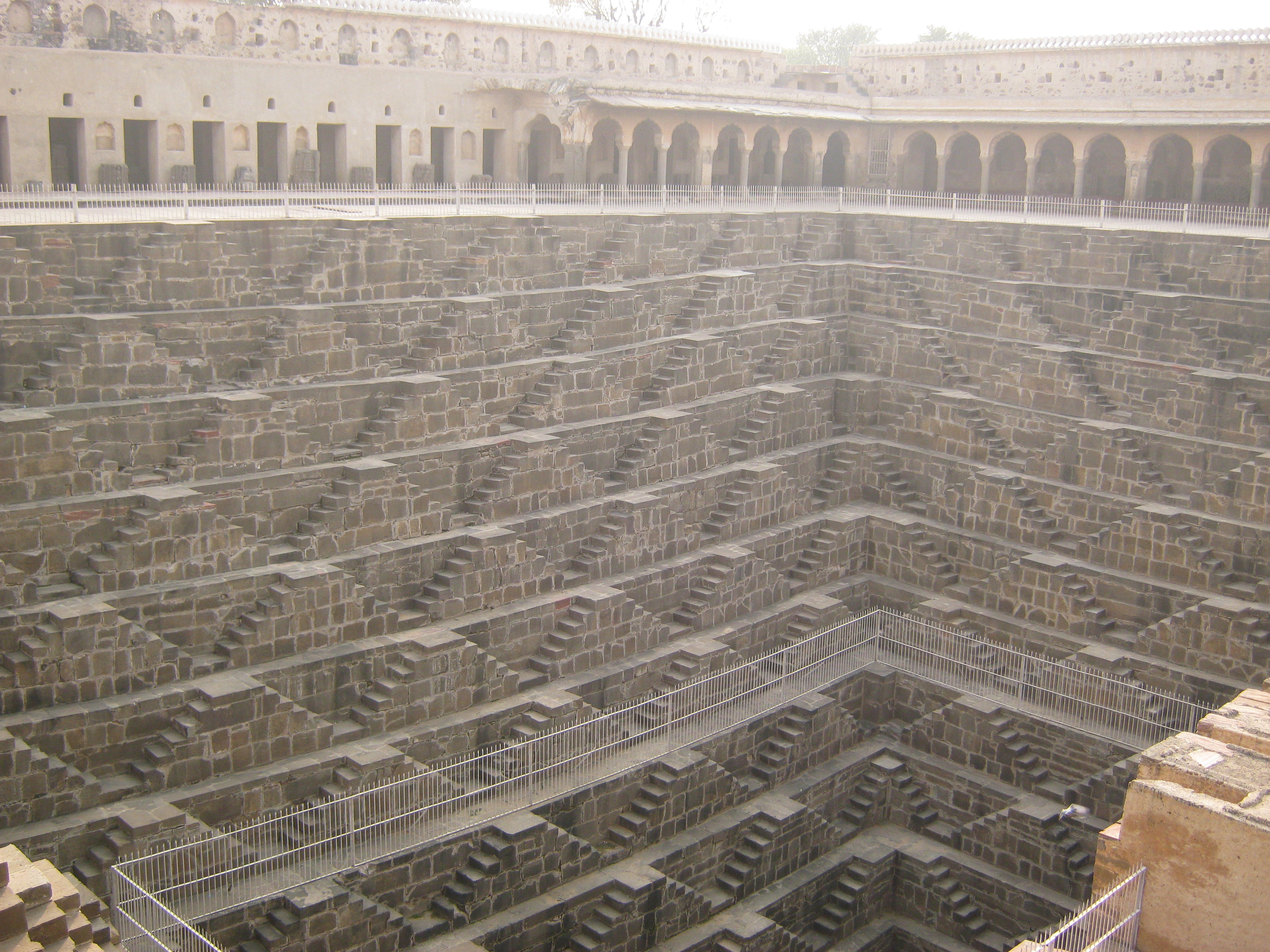 The Heritage View of Chand Baori